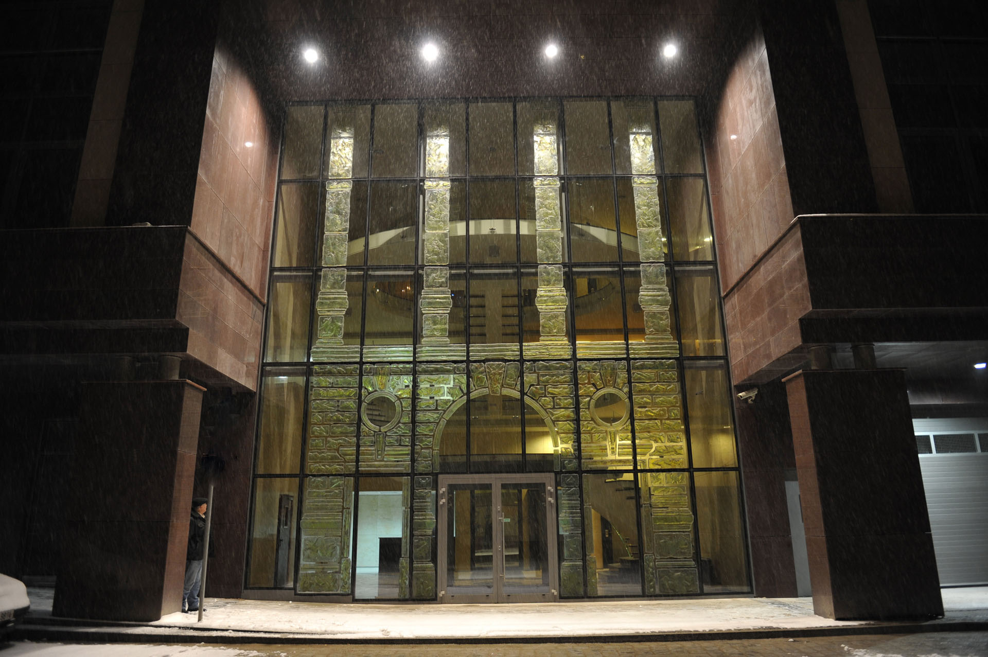 Contemporary art glass elevation by ARCHIGLASS Tomasz Urbanowicz inspired by the nonexistent body of the post office. The elevation marks the main entrance to the Justin Center Building and thanks to its transparency and the way it plays with the light it livens up the hall and street showing the author’s respect for history. This work of art is 10 meters tall.